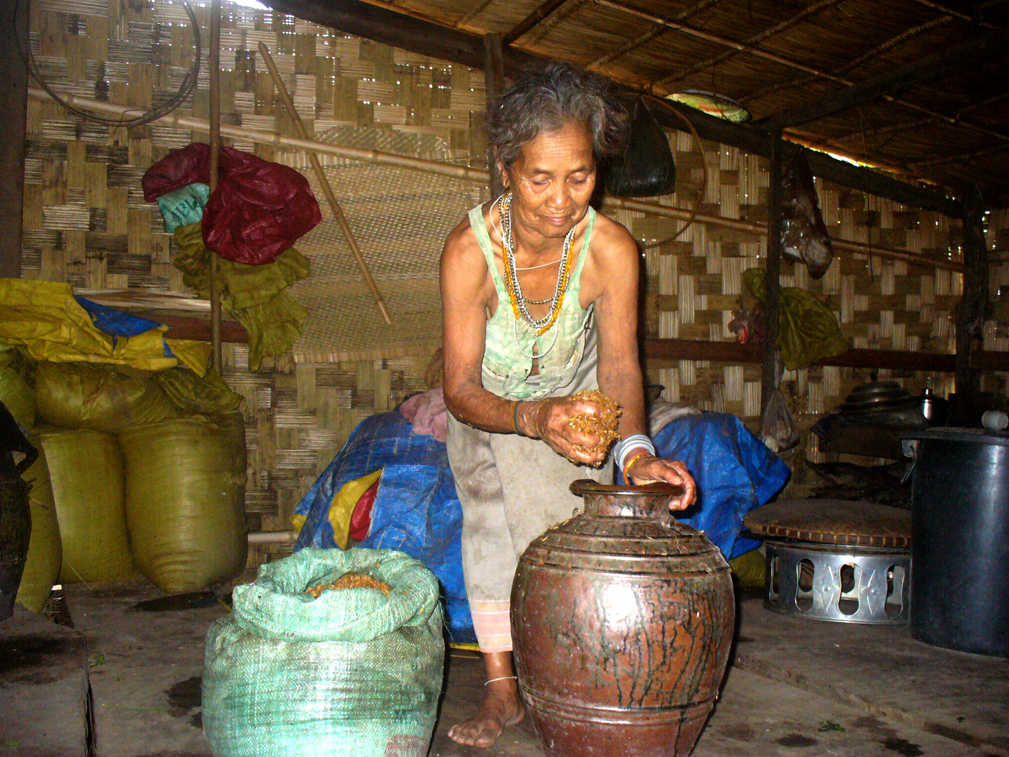 An elderly woman prepares rice wine (lao hai) in her home. She’s adding rice husk, mixed with rice, which has already begun fermenting, into the traditional jar used for this purpose.